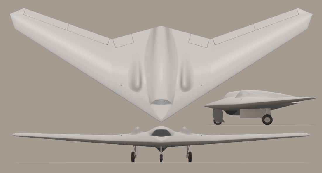 Original illustration by me using 3d applications and basic photogrammetry techniques from the only three, low-resolution photographs publicly available at time of completion. Created to illustrate the Wikipedia RQ-170 Sentinel article. Human-scale was determined from "Aviation Week" blog article reporting that the wingspan is estimated to be 65-feet. (This is similar to a related UAV precursor; the X-47B which had a wingspan of 62 ft, 1 in.) Applications used: 3d Studio MAX; Bryce 3D; Corel PhotoPaint; IrfanView. This is an image link to show how my model lines up with a lesser known photo of the RQ-170. (shown "back-to-back") The model with the other photo, the one from Liberation's blog... (The article image is in PNG format rather than SVG because it is a 3D-rendering, not vector-based artwork.) Photo #3 Photo #2 Aviation Week blog where wingspan estimation came from Note: Updated per new photo available online from February 2010 Combat Aircraft Monthly. Look for another update in the future.truthdowser (talk) 18:43, 3 February 2010 (UTC)